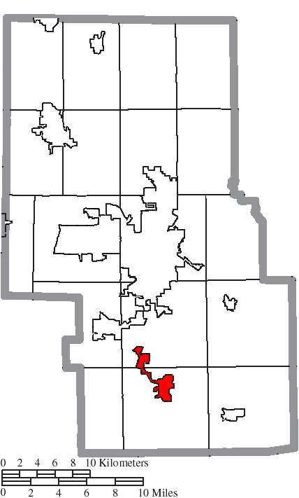 Map of the municipal and township boundaries of Richland County, Ohio, United States, as of the 2000 census, with the location of the village of Bellville highlighted. Township borders are shown only in unincorporated areas in order to differentiate incorporated and unincorporated areas more clearly.